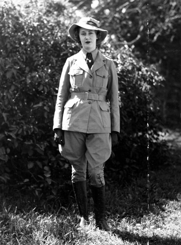 Horsewoman in the Australian Women's Emergency Legion, Horse Transport, Brisbane, September 1939